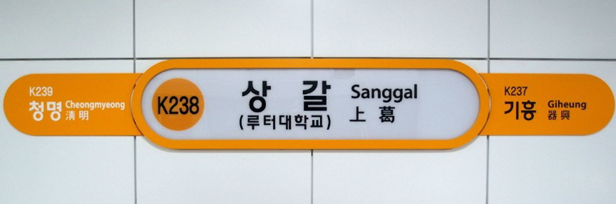 K238 Sanggal station